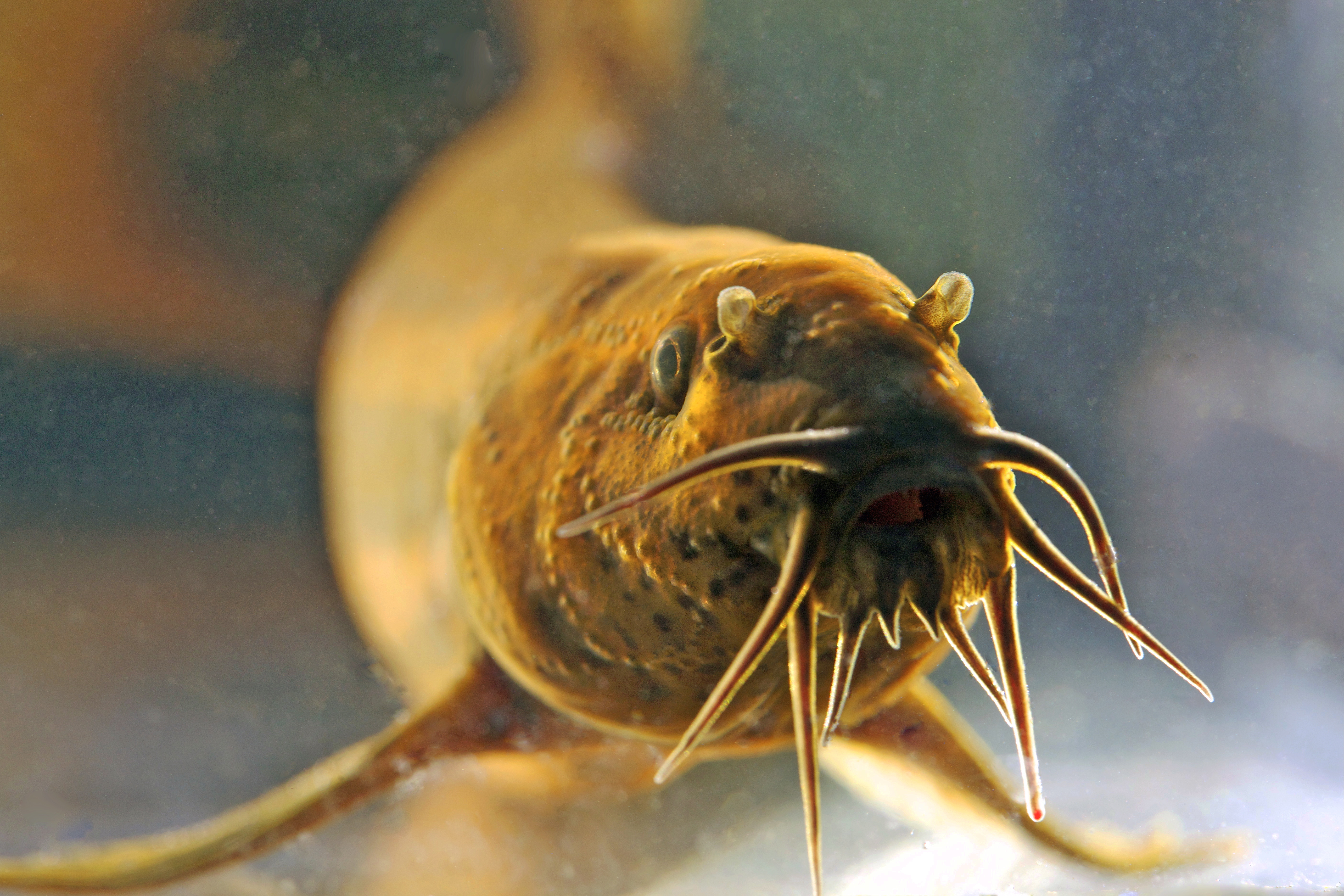 European weatherfish in river Emajõgi (Estonia).